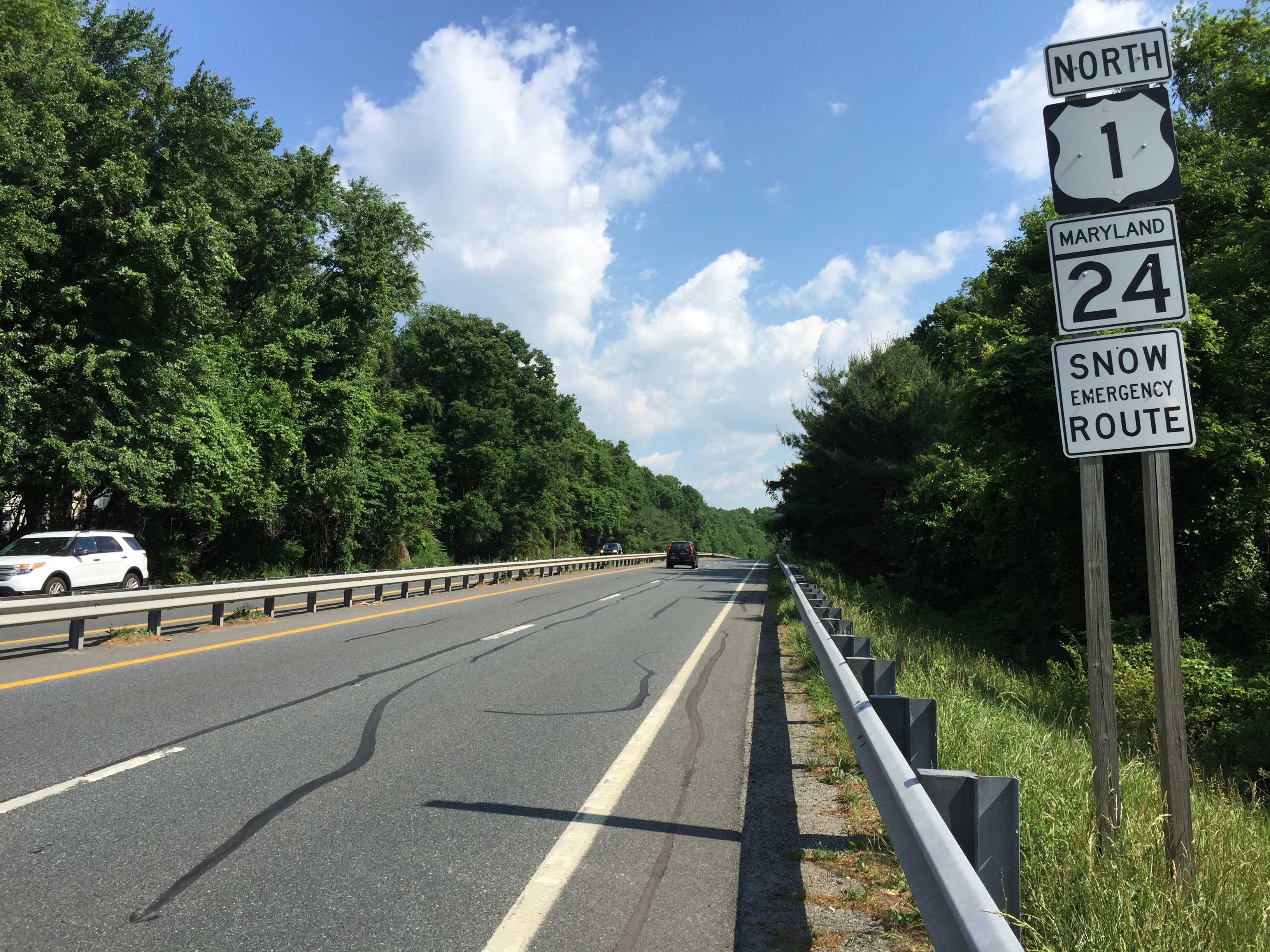 View north along U.S. Route 1 and Maryland State Route 24 (Bel Air Bypass) just north of Vale Road in Bel Air North, Harford County, Maryland